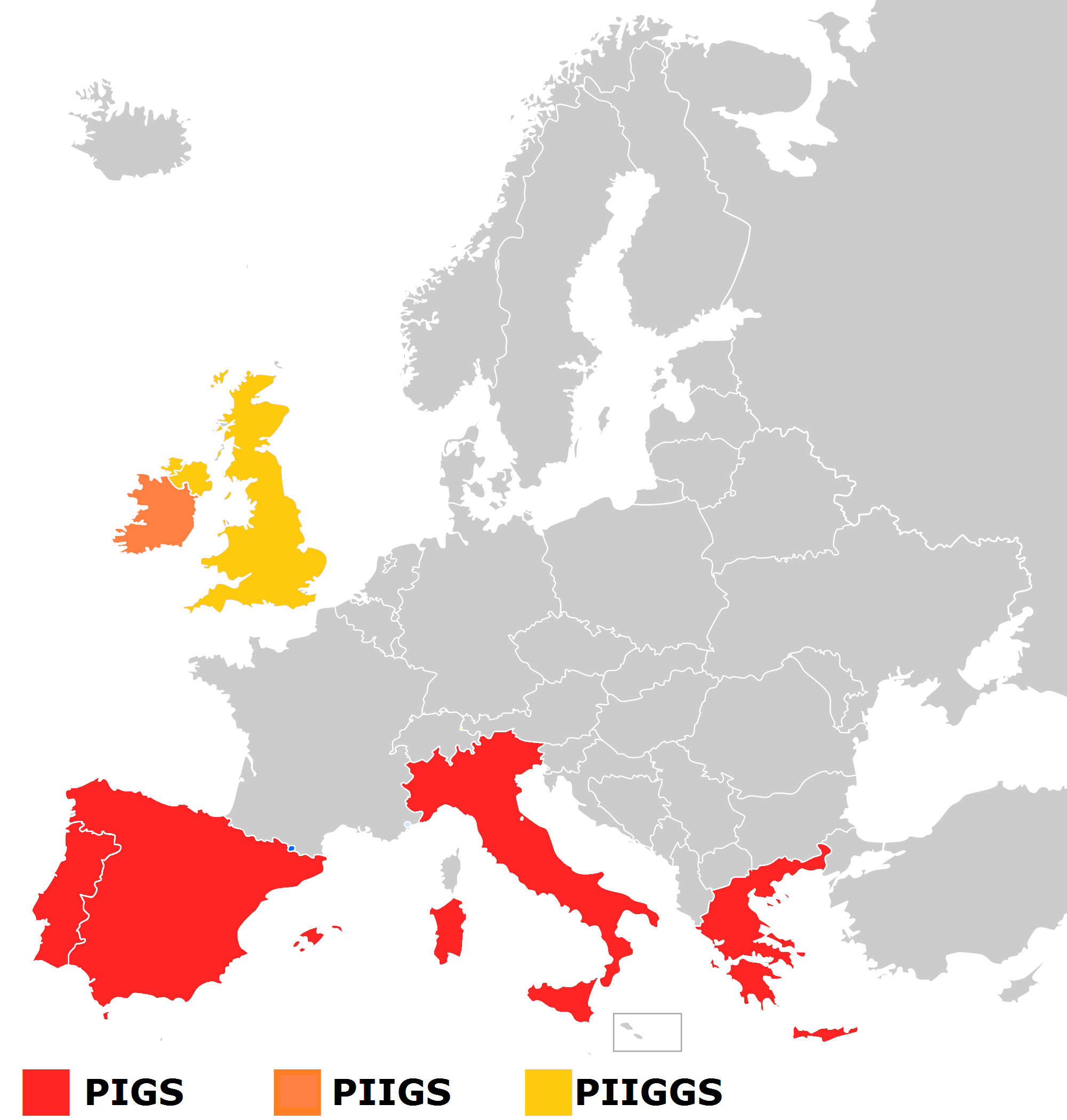 PIGS/PIIGS/PIIGGS